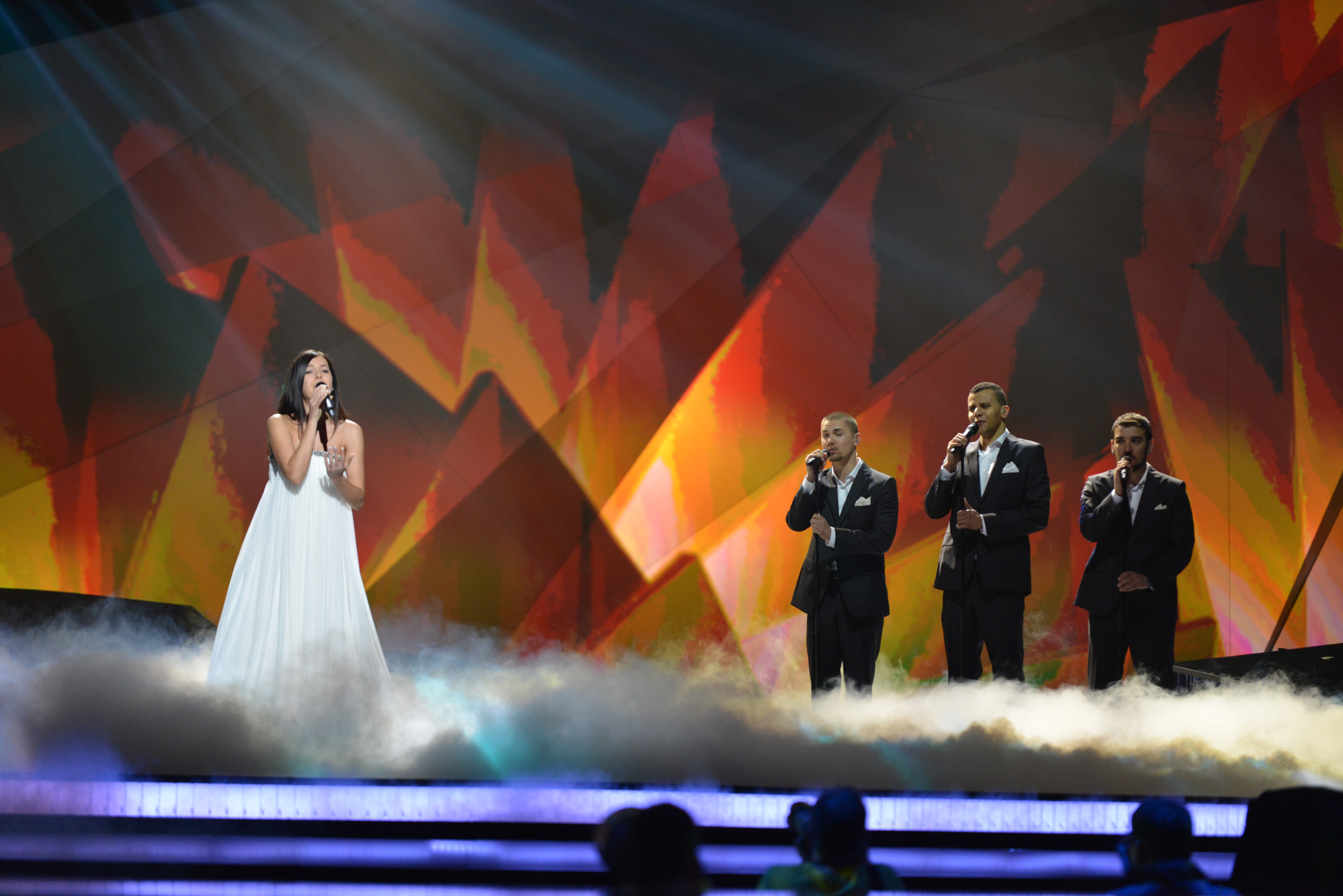 Birgit representing Estonia with the song "Et uus saaks alguse" during the first dress rehearsal of the first semi final of the Eurovision Song Contest 2013 in Malmö. (Help translate this text)